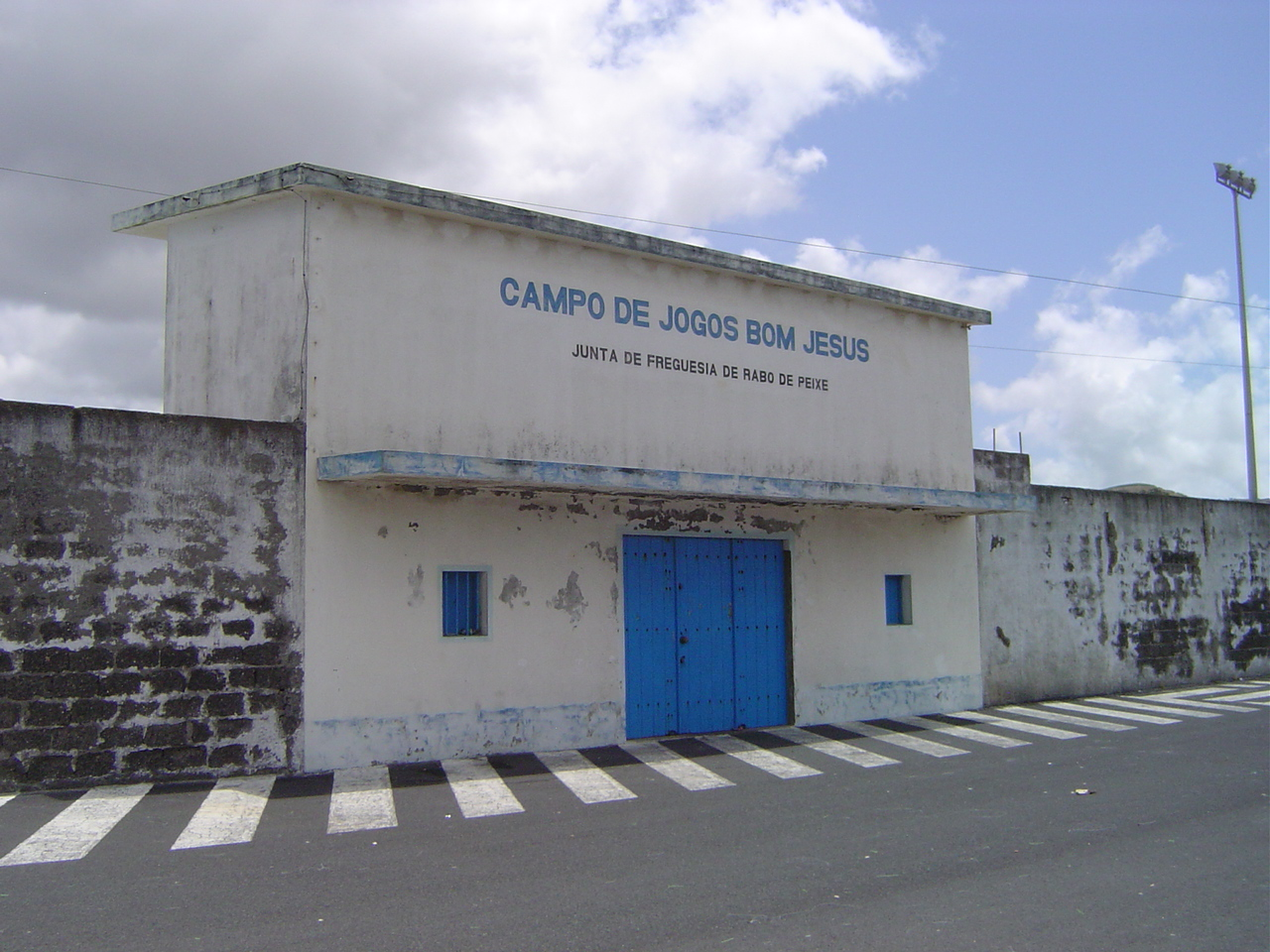 Campo de Jogos Bom Jesus - administration block. The stadium is used by Clube Desportivo Rabo de Peixe, a Portuguese football club based in Rabo de Peixe, Ribeira Grande on the island of São Miguel in the Azores.